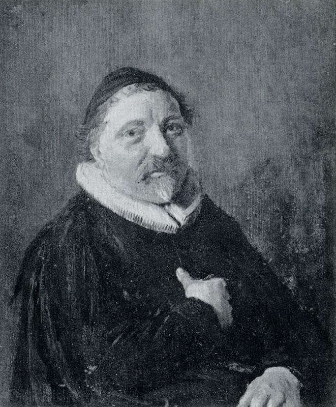 Portrait of Adrianus Tegularius